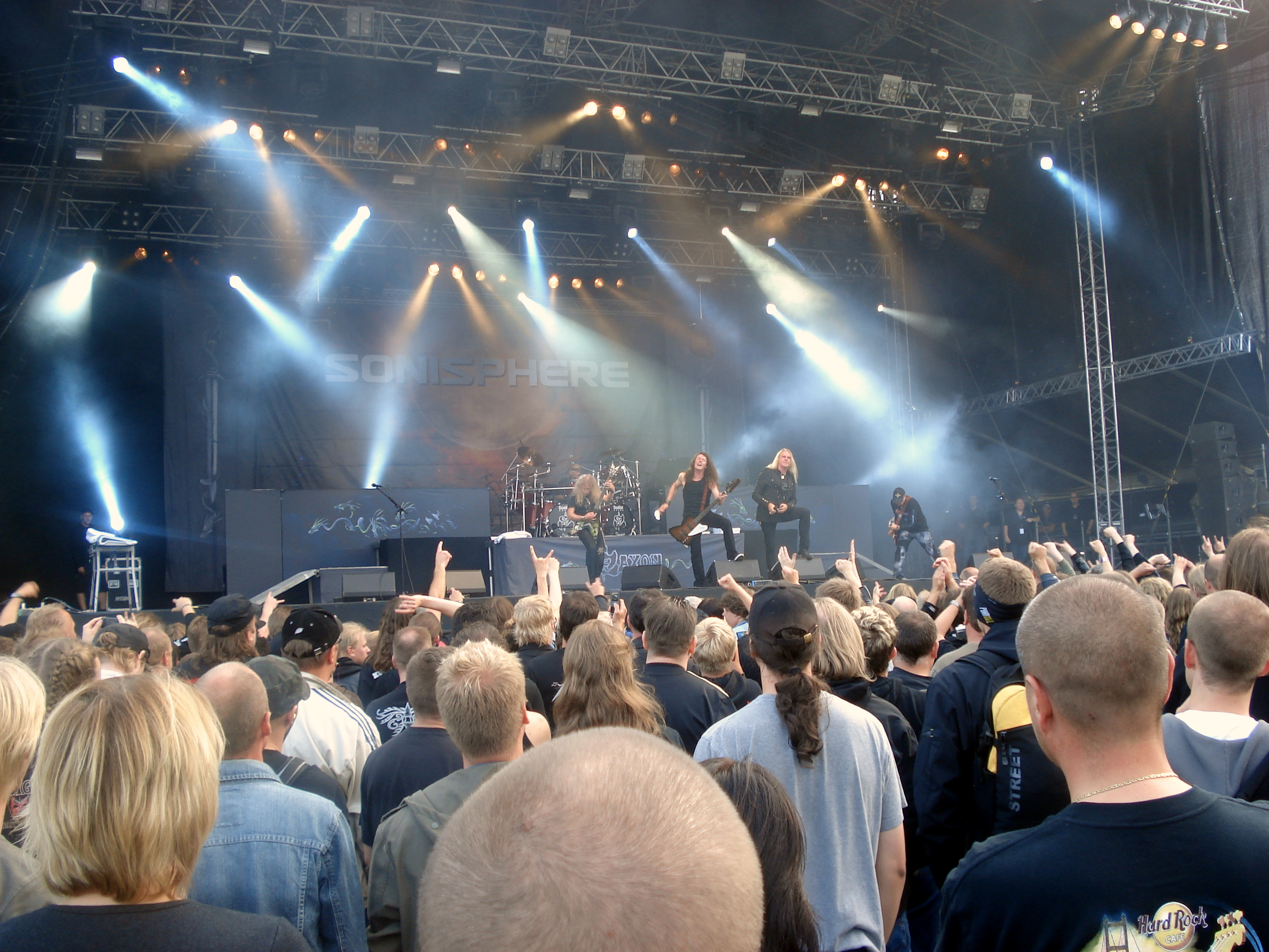 Saxon performing at Sonisphere Festival in Kirjurinluoto, Pori, Finland.